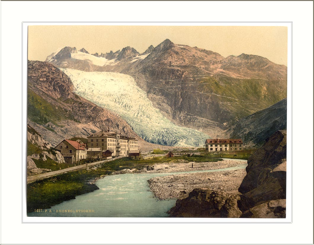 The Rhone Glacier Glacier Hotel and Furka Road Valais Alps of Switzerland